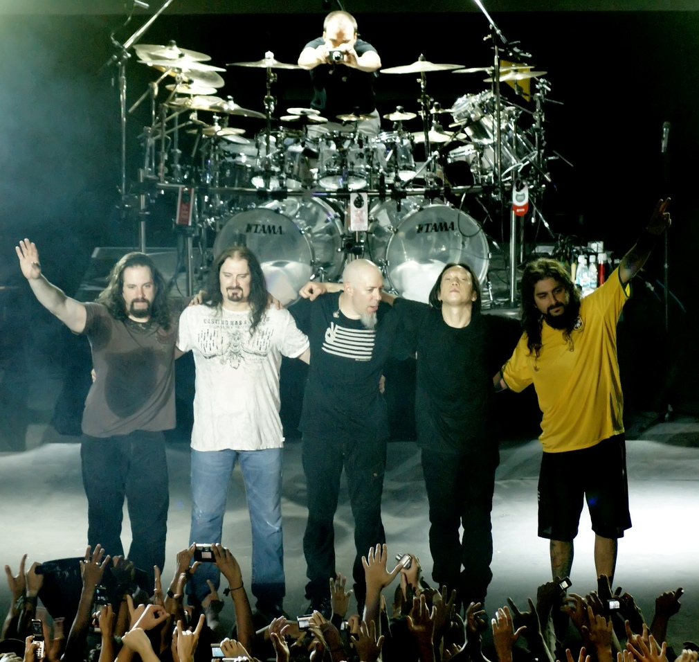 Dream Theater